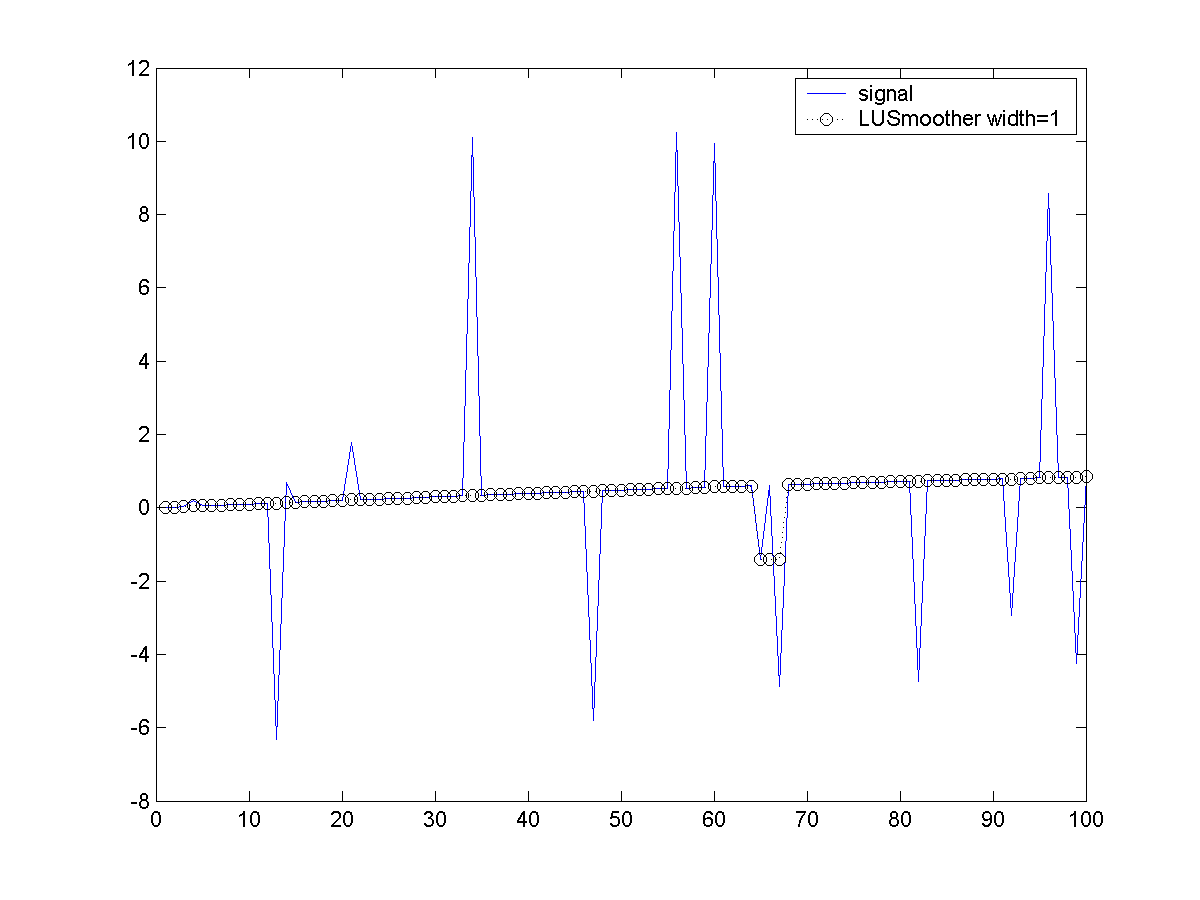 Application of LU Smoother of width 1 to sample data